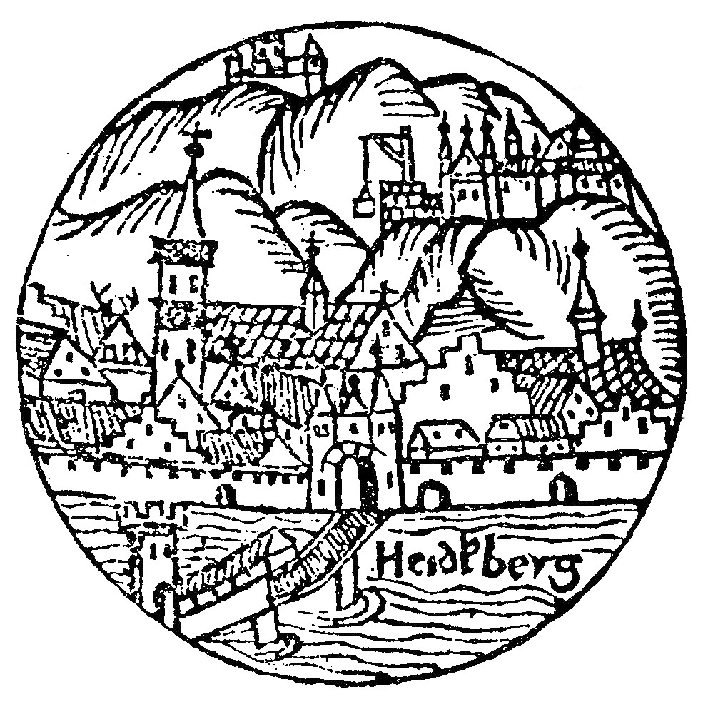 historic views of Heidelberg, Germany. Earliest picture of Heidelberg: Sebastian Münster's woodcut of 1527